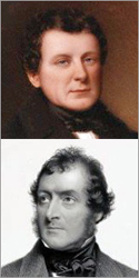 Daniel O'Connell and Henry Labouchere, 1st Baron Taunton